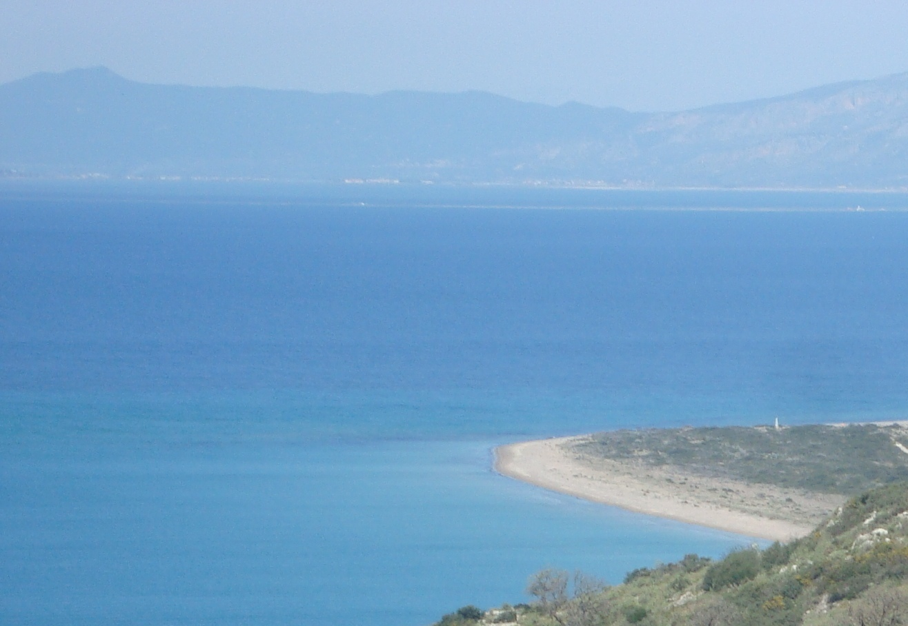 Cape Araxos, Achaia, Greece